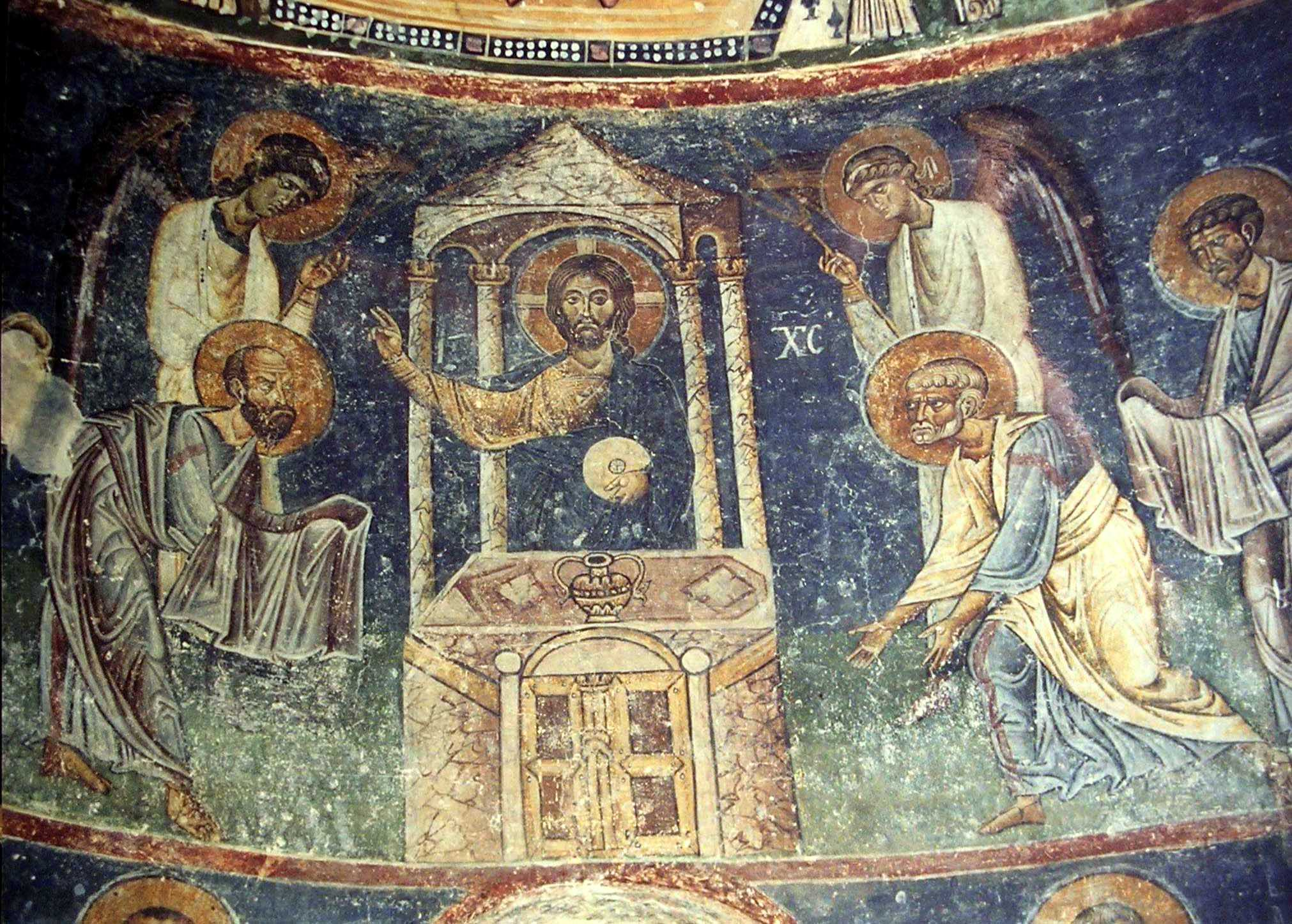 Paintings in St. Sophia Church in Ohrid, Macedonia